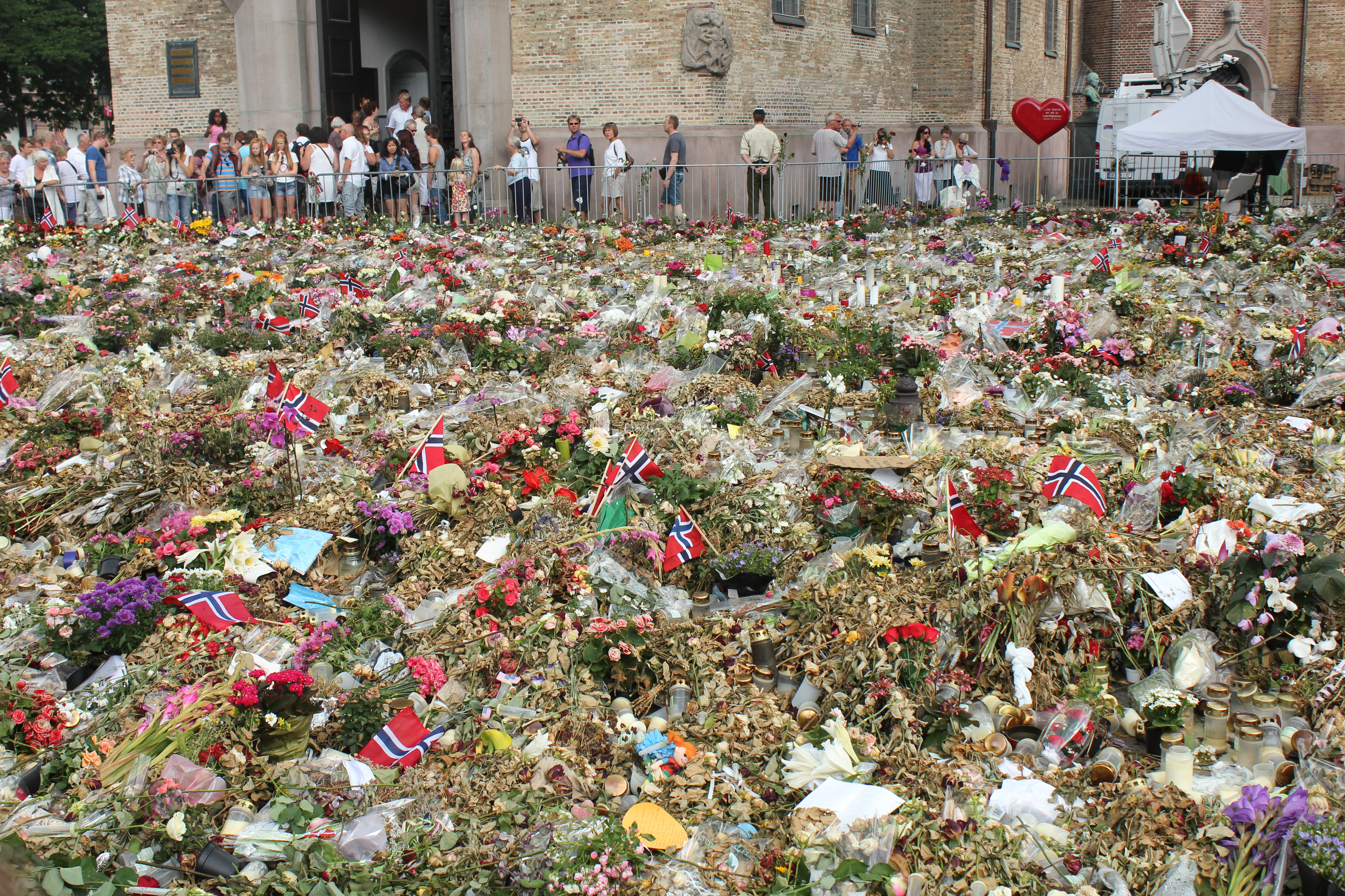 Flowers in front of Oslo Cathedral to remember the victims of the recent terror attack.